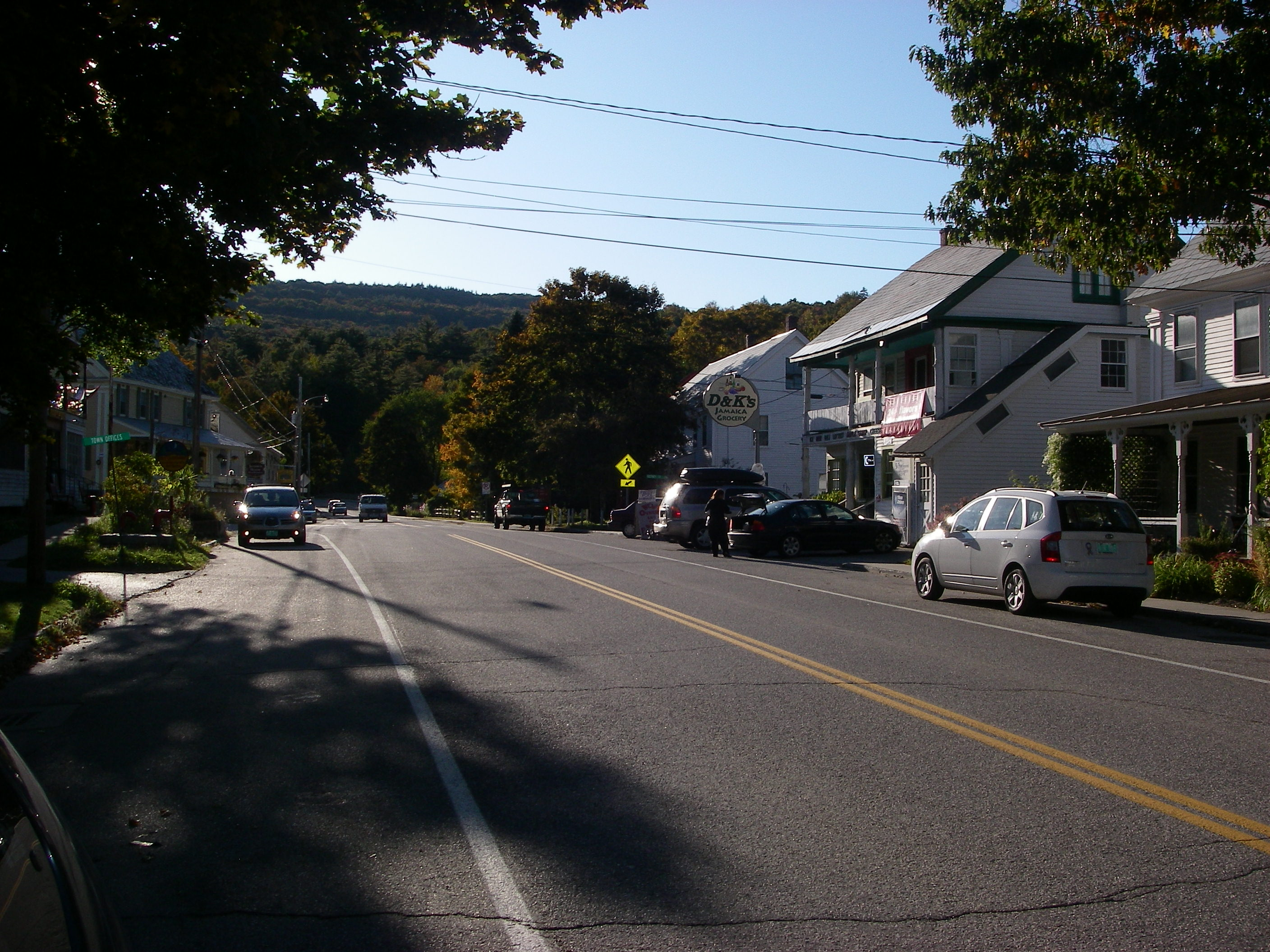 View of Jamaica